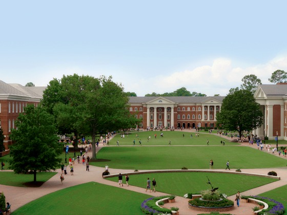 The Great Lawn of Christopher Newport University, featuring the David Student Union and the McMurran and Forbes academic buildings.